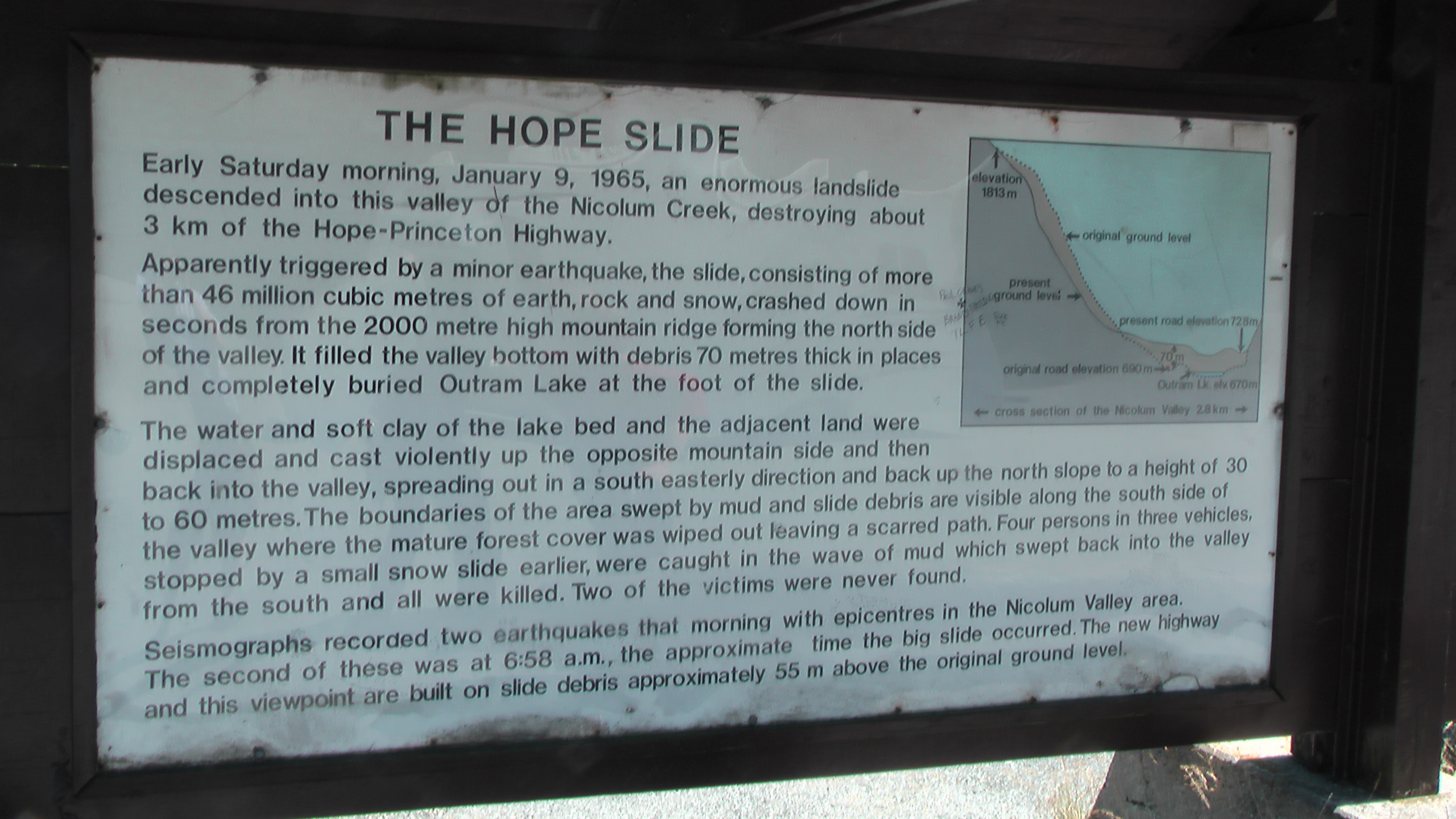 The Hope Slide, Info Desk, Crowsnest Highway No 3, BC Canada